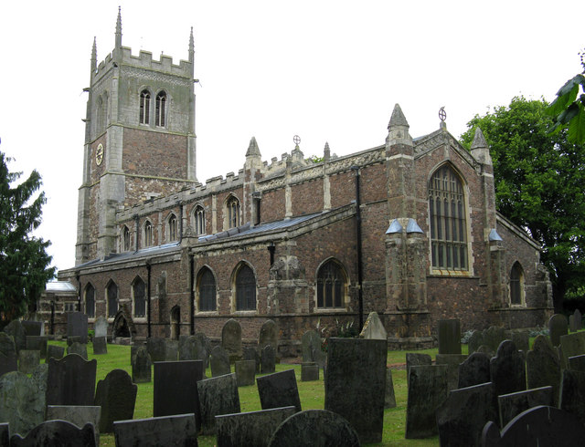 Parish Church of St Peter and St Paul, Syston, Leicestershire